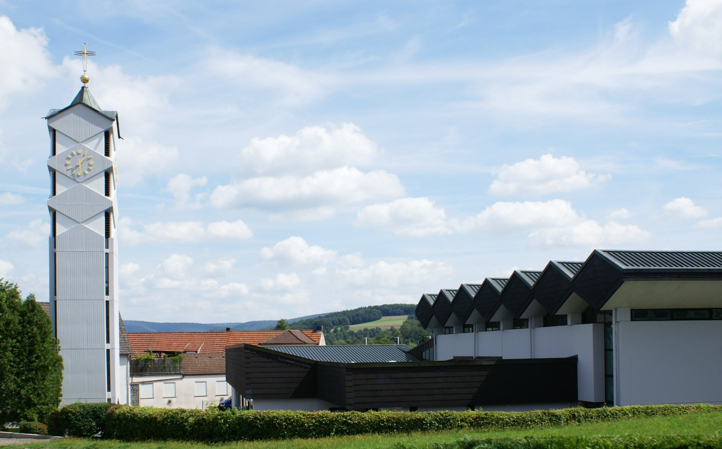 Schimborn: The new architecturally well designed church St. Jakobus major. Lefthand the separate belltower, righthand the nave.